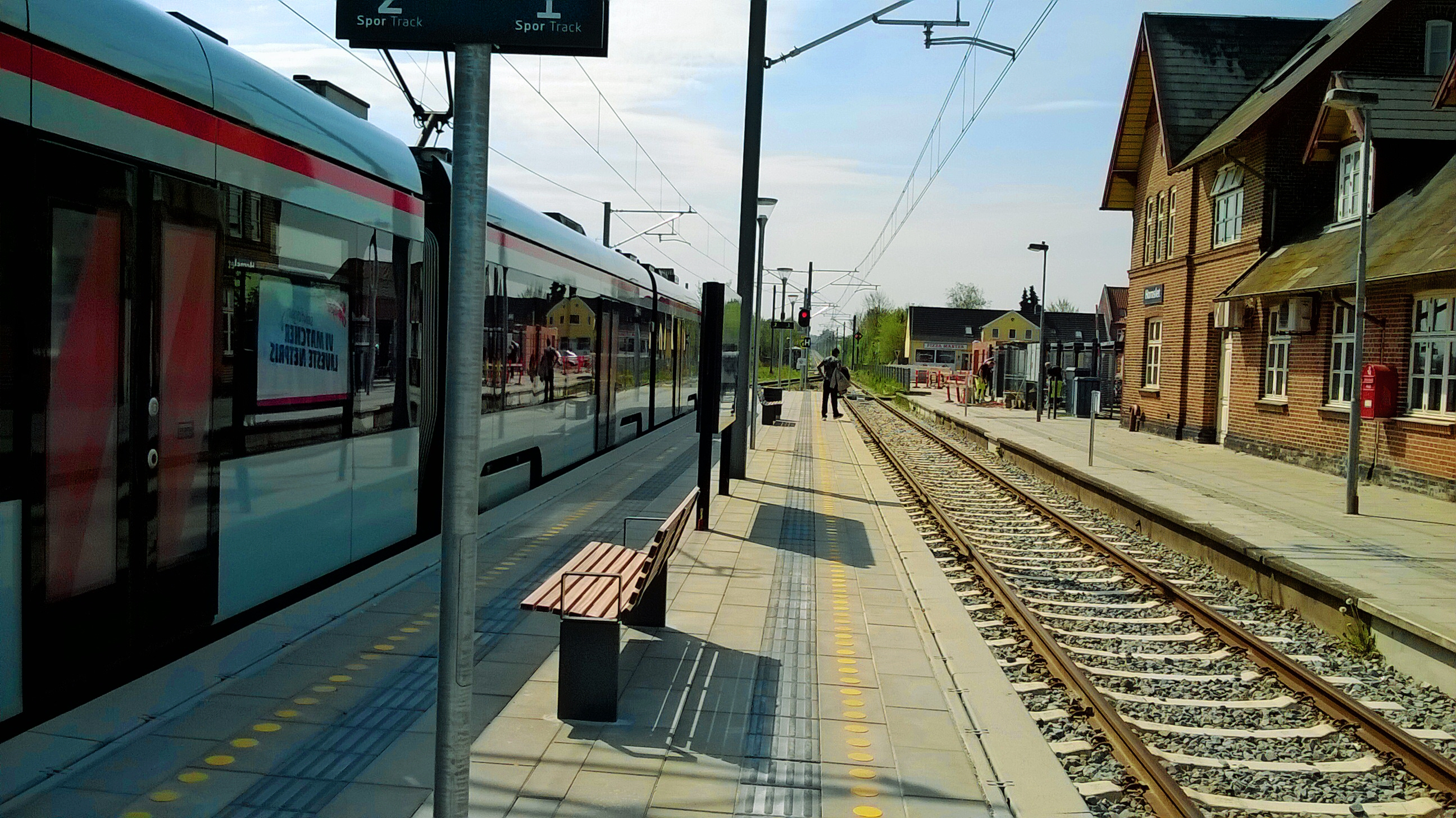 Hornslet Letbane Station (Aarhus Letbane)